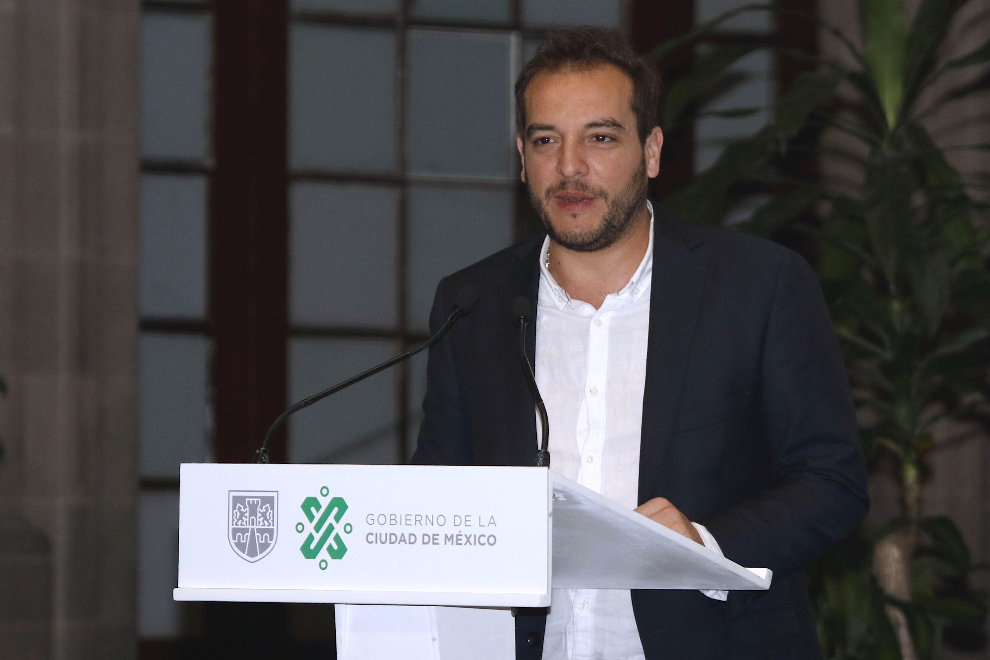 Friday, 17 May, 2019. Cristian Di Candia on a visit to Mexico City. Picture by Milton Martinez / Secretaria de Cultura de la Ciudad de Mexico.